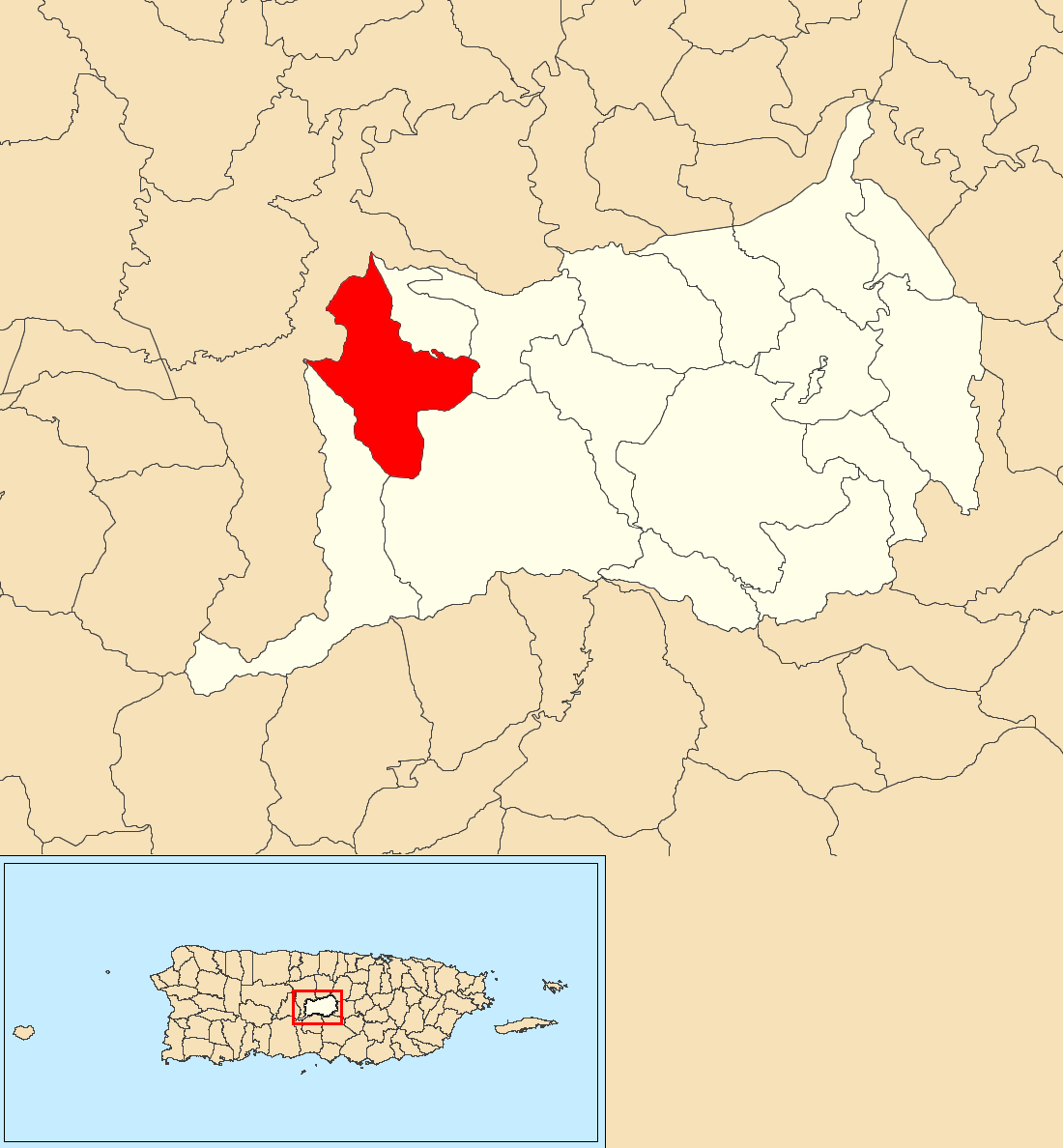 Cacaos, Orocovis, Puerto Rico locator map